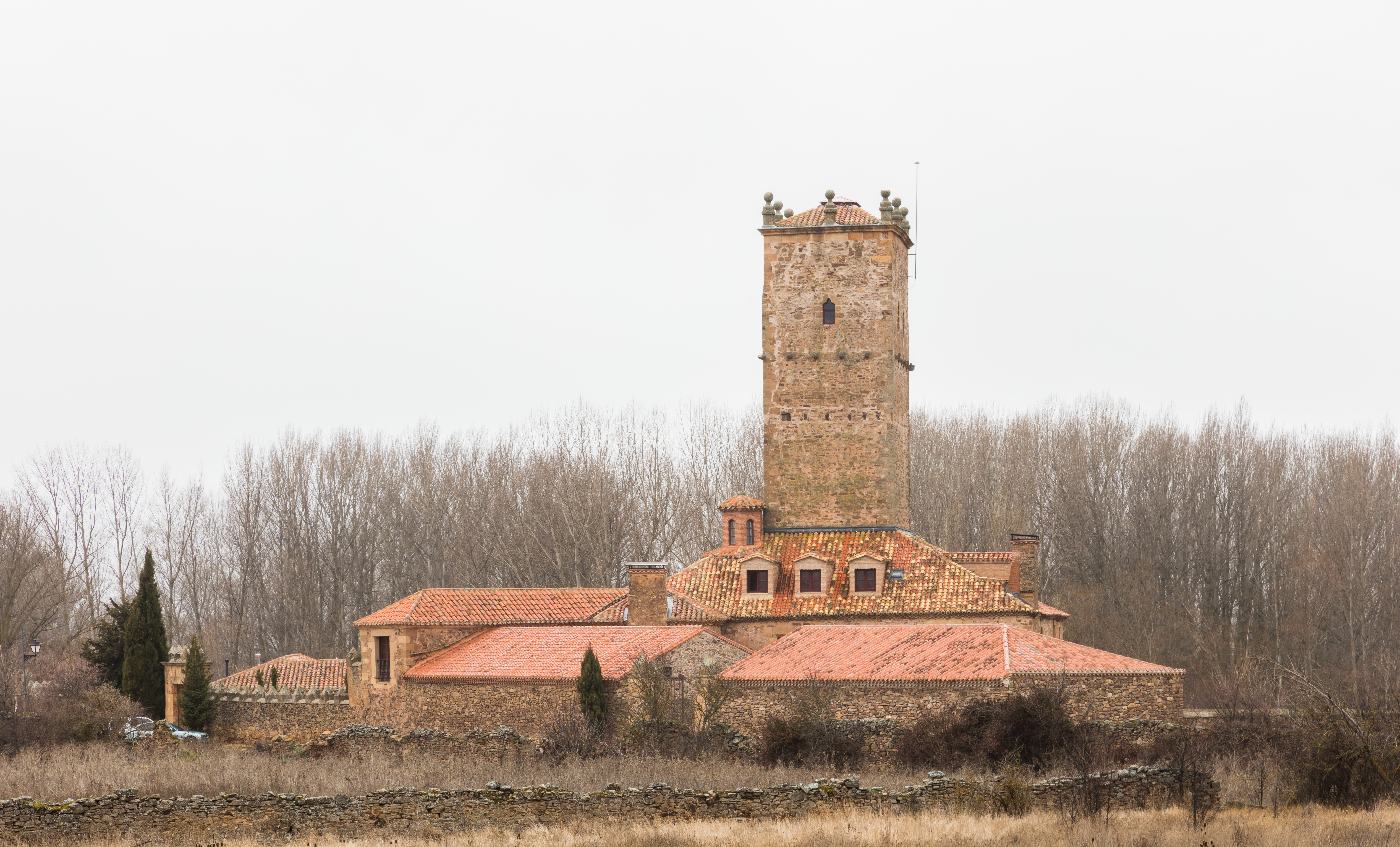 Palace of Aldealseñor, Soria, Spain